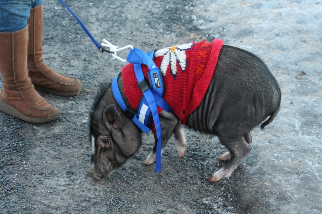 Pet pig on a leash.